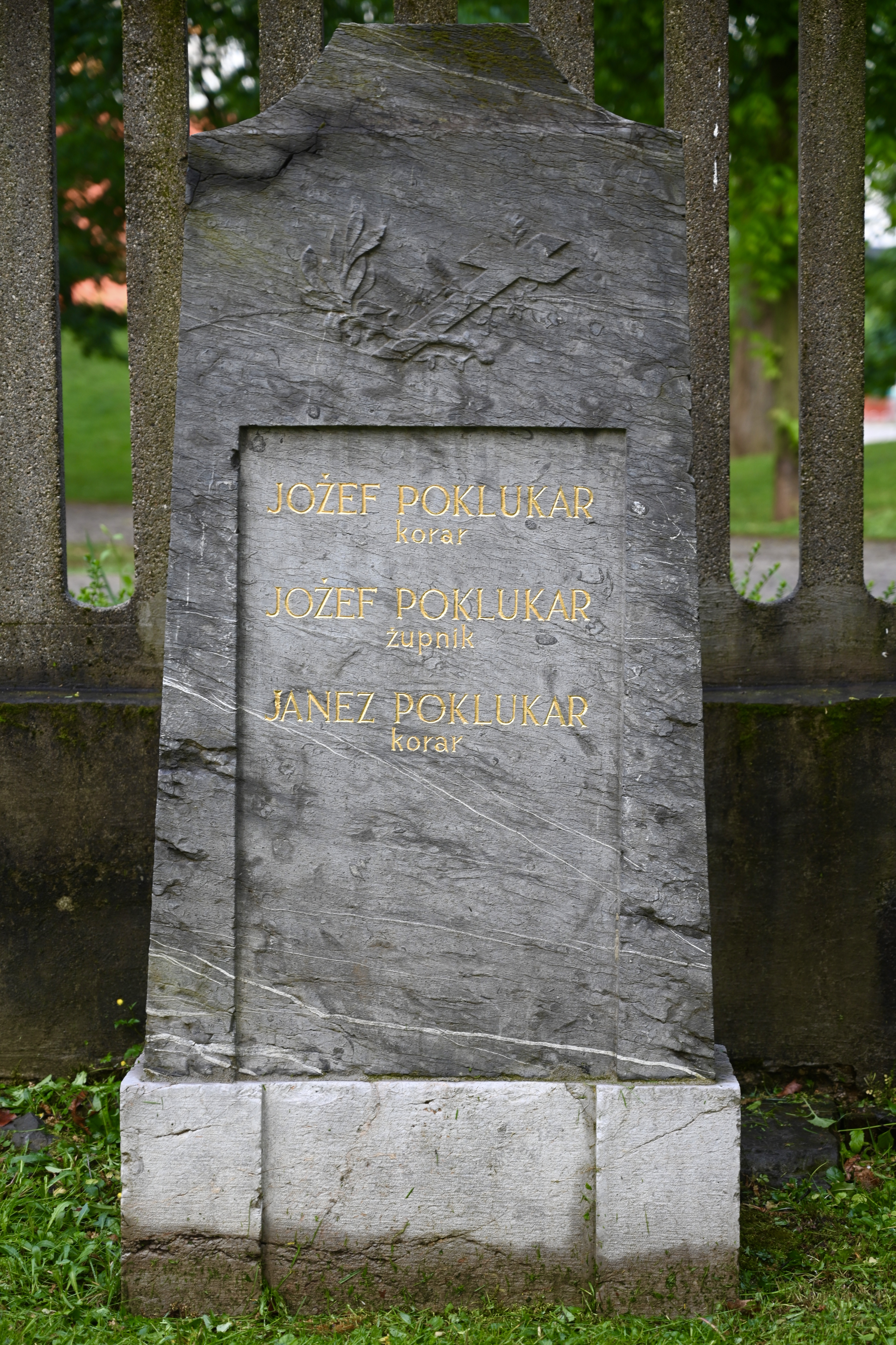 Tombstone of priests Poklukar at Navje in Ljubljana